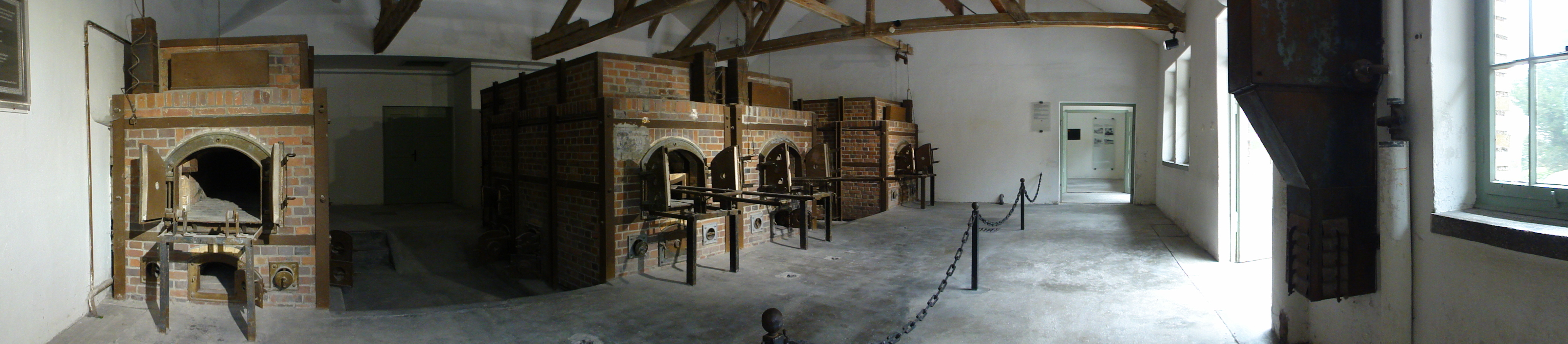 Dachau, concentration camp, gas furnances (panorama)